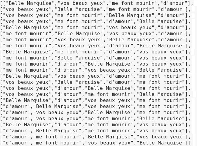 Permutations of the sentence « Belle Marquise vos beaux yeux me font mourir d'amour », after Molière